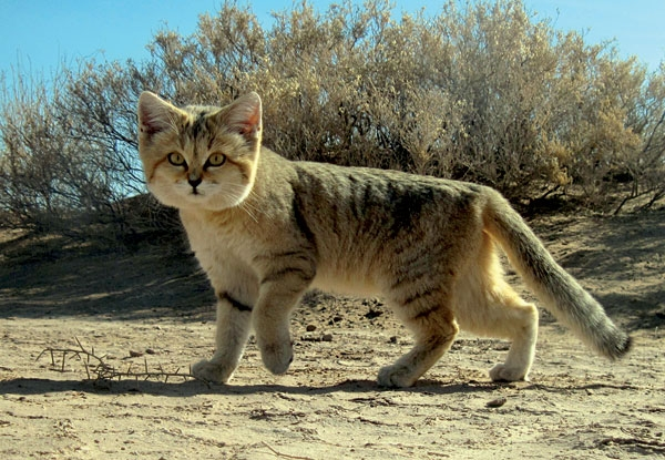 Persian sand cat (Felis margarita thinobia)